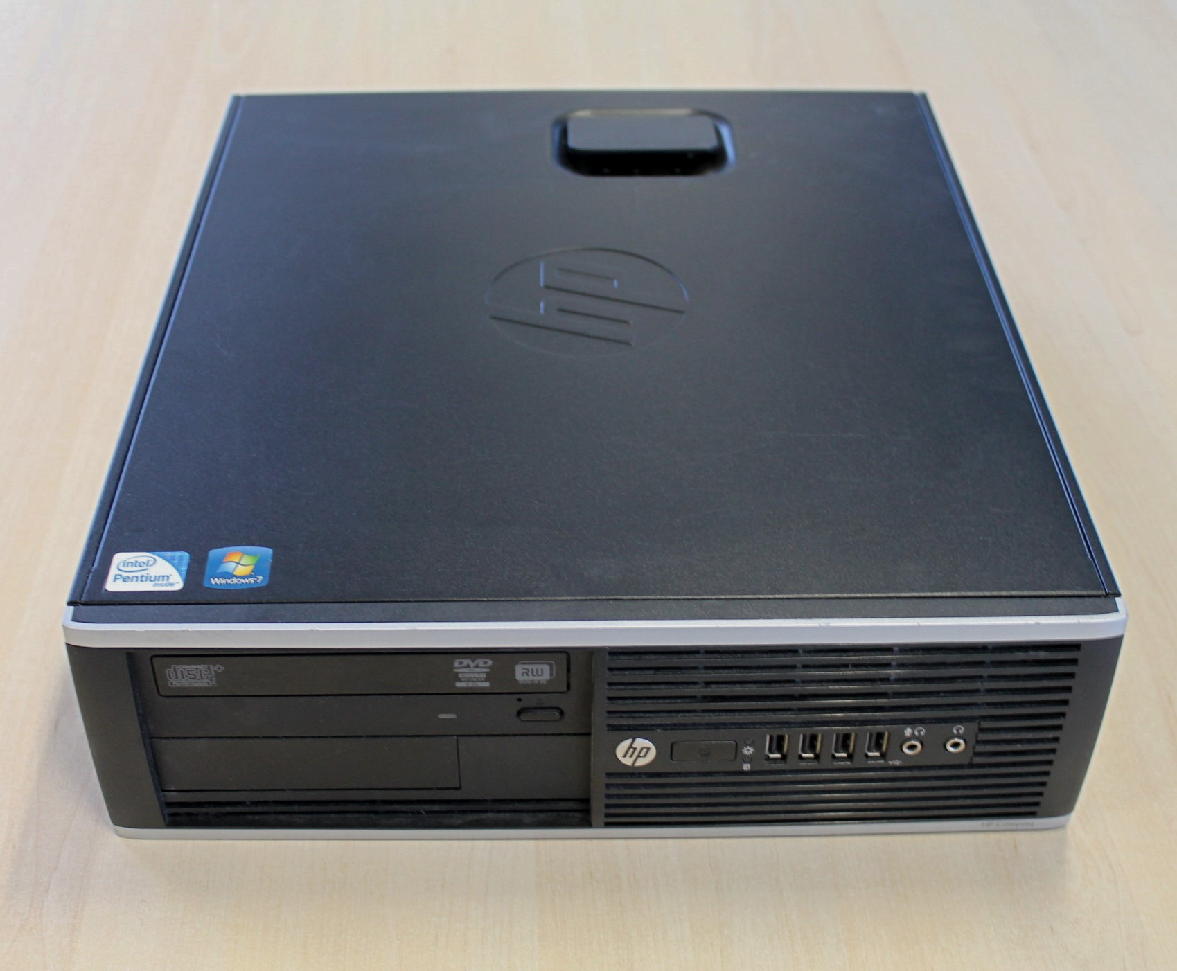 Front image of a HP Elite 8000 desktop